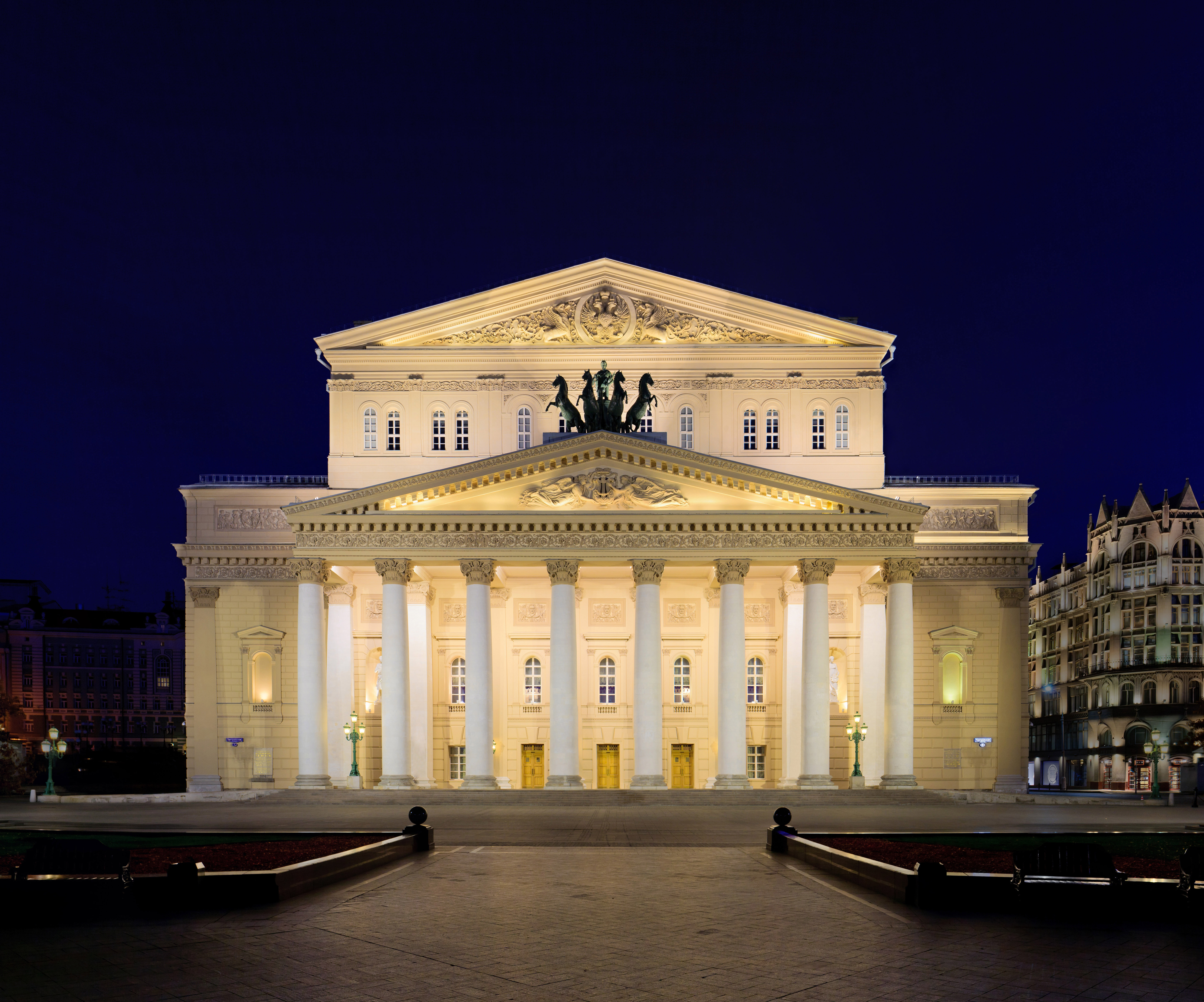 Bolshoi Theatre — front facade view at night, in Moscow.